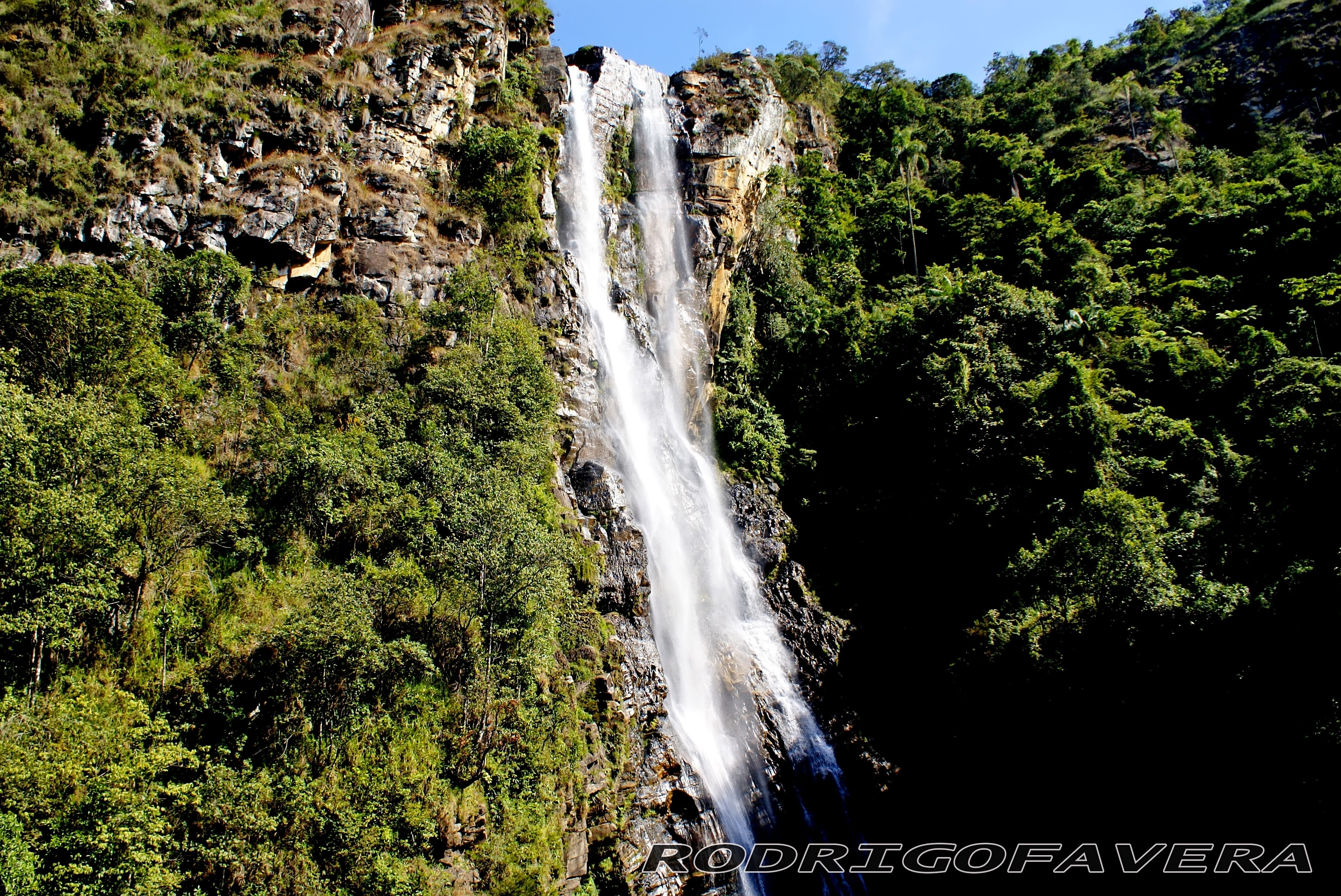 Alta Waterfall, in the Ipoema district - in Itabira, Minas Gerais, Brazil.